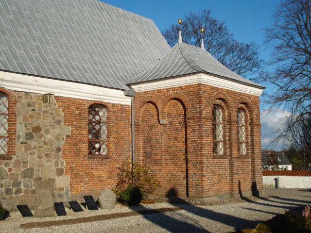 The chapel at the south side of the church in Hornslet, Jutland, Denmark